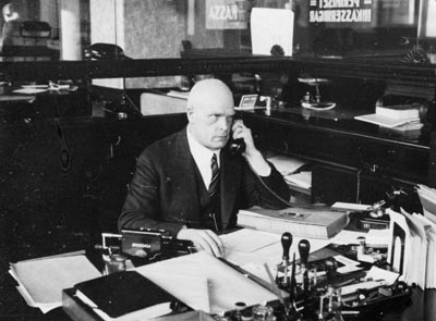 Toivo Vilppula (1888–1941), Finnish social democrat and the president of the Finnish Workers' Sports Federation (1928–1937) in 1930.